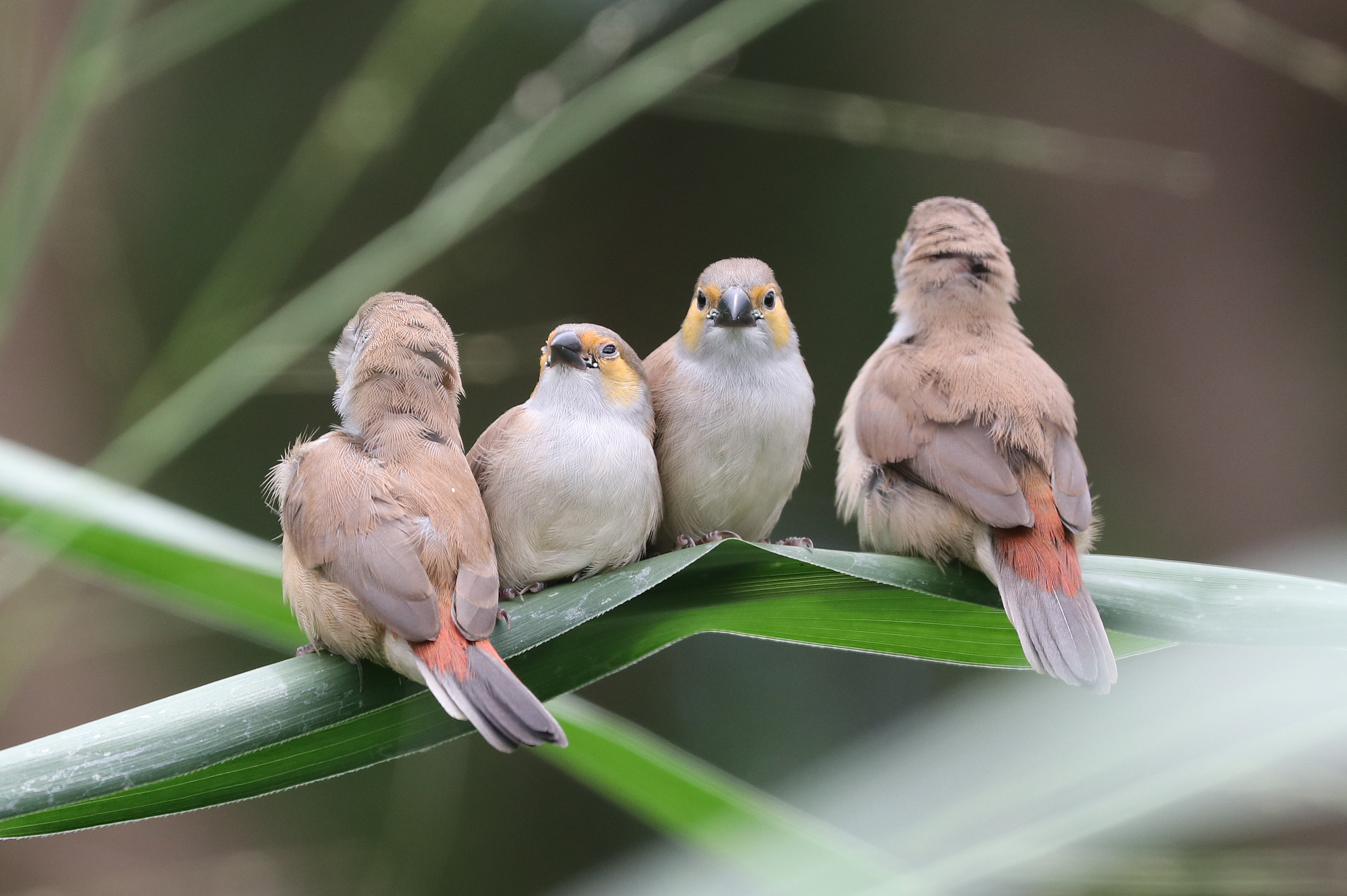 ORANGE-CHEEKED WAXBILL (5-5-2018) waihee coastal dunes and wetland refuge, maui co, hawaii -21